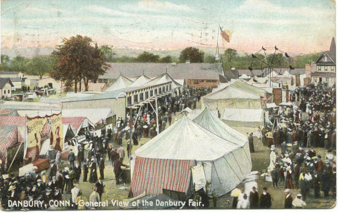 Danbury Fair in Danbury, about 1908. Store Web page states: "Danbury CT Fair c1908 Postcard"